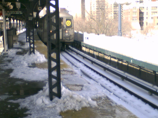 Coney Island bound Q train, just left the Ocean Parkway station